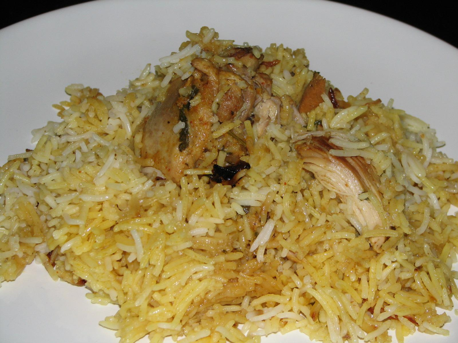 Kachhi Murgh Dum Biryani (plated)